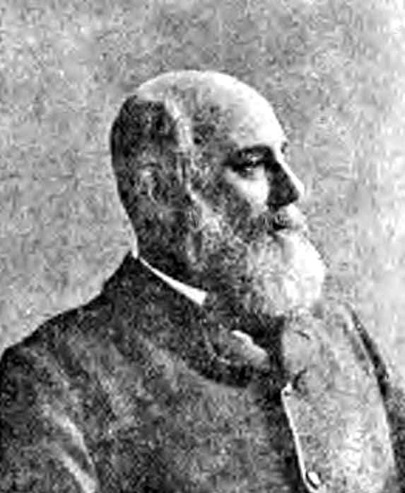 Sir William Evans, President of the new Derby Royal Infirmary. The reward for the mayor Sir Albert Seale Haslam was that he was knighted as Mayor of Derby in 1891 on the day of the Queens visit. From the book of the day